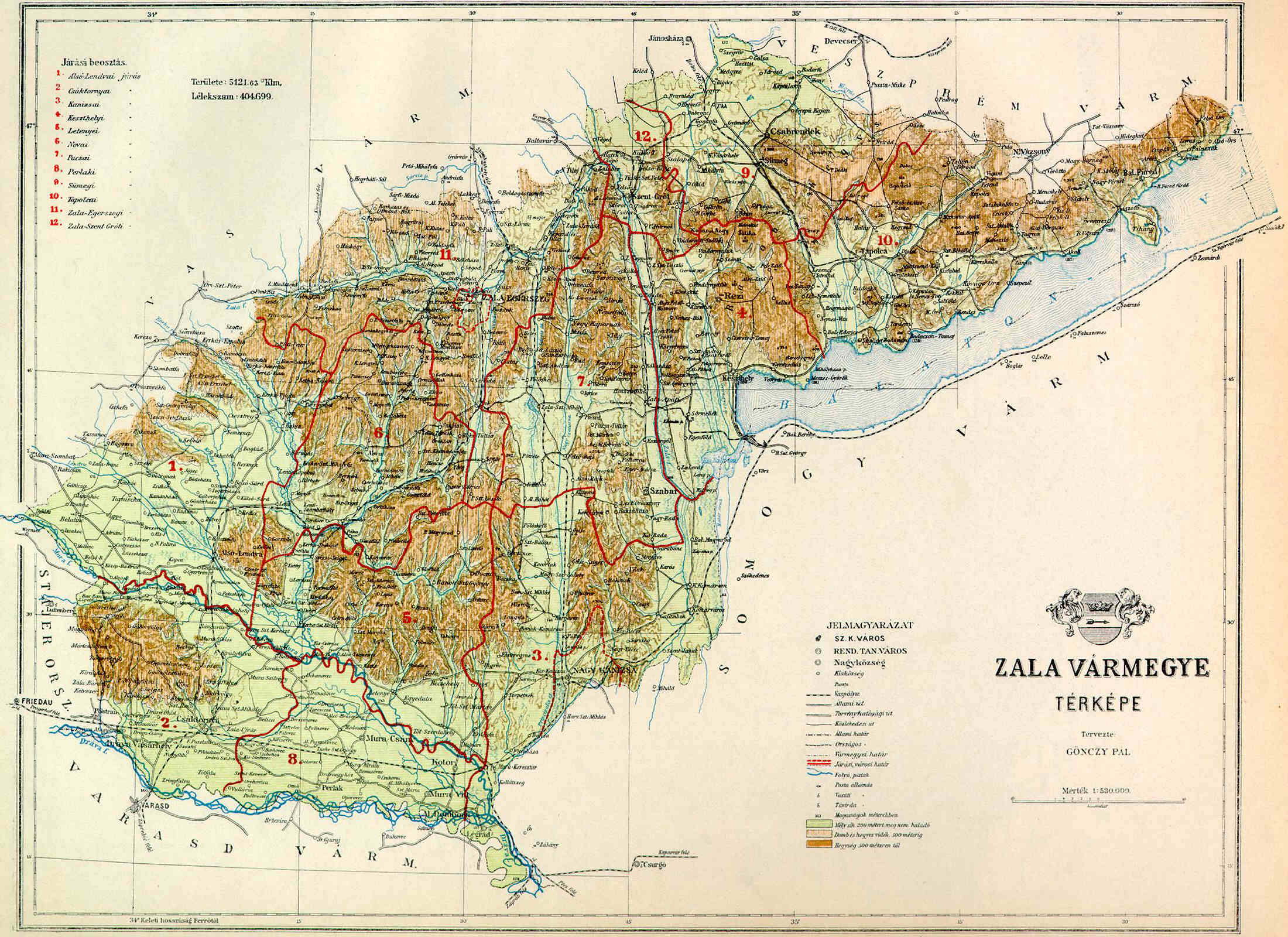 County of Zala in the pre-Trianon Kingdom of Hungary. Komitat Zala w Królestwie Węgier przed traktatem w Trianon.